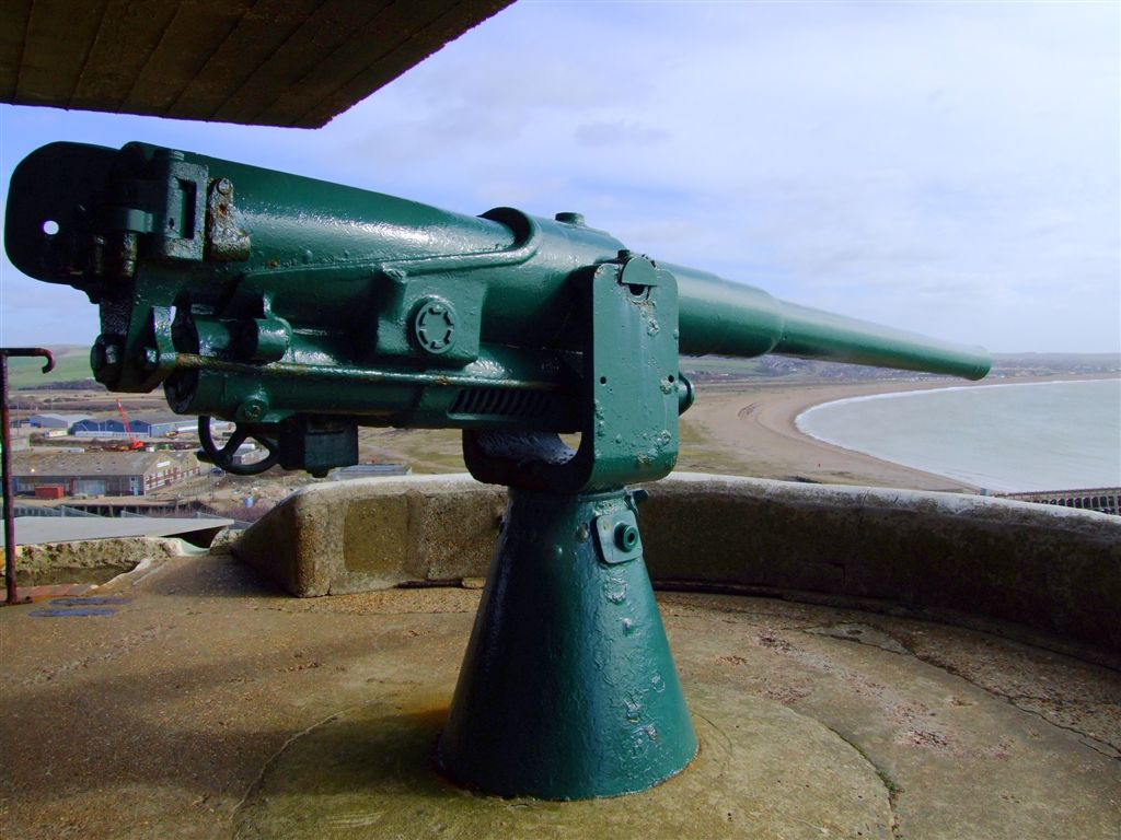 Photograph of QF 12 pounder 12 cwt naval gun, of an early vintage, probably Mk I. At Newhaven Fort, UK.